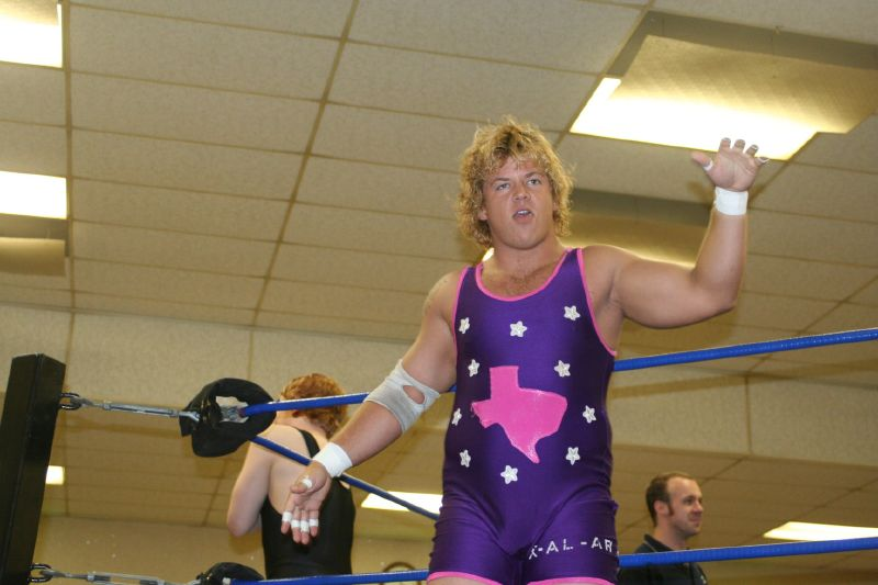 Professional wrestler and wrestling manager Larry Sweeney on the ring apron at Chikara's YLC 6 Night #3 show on June 15, 2008.